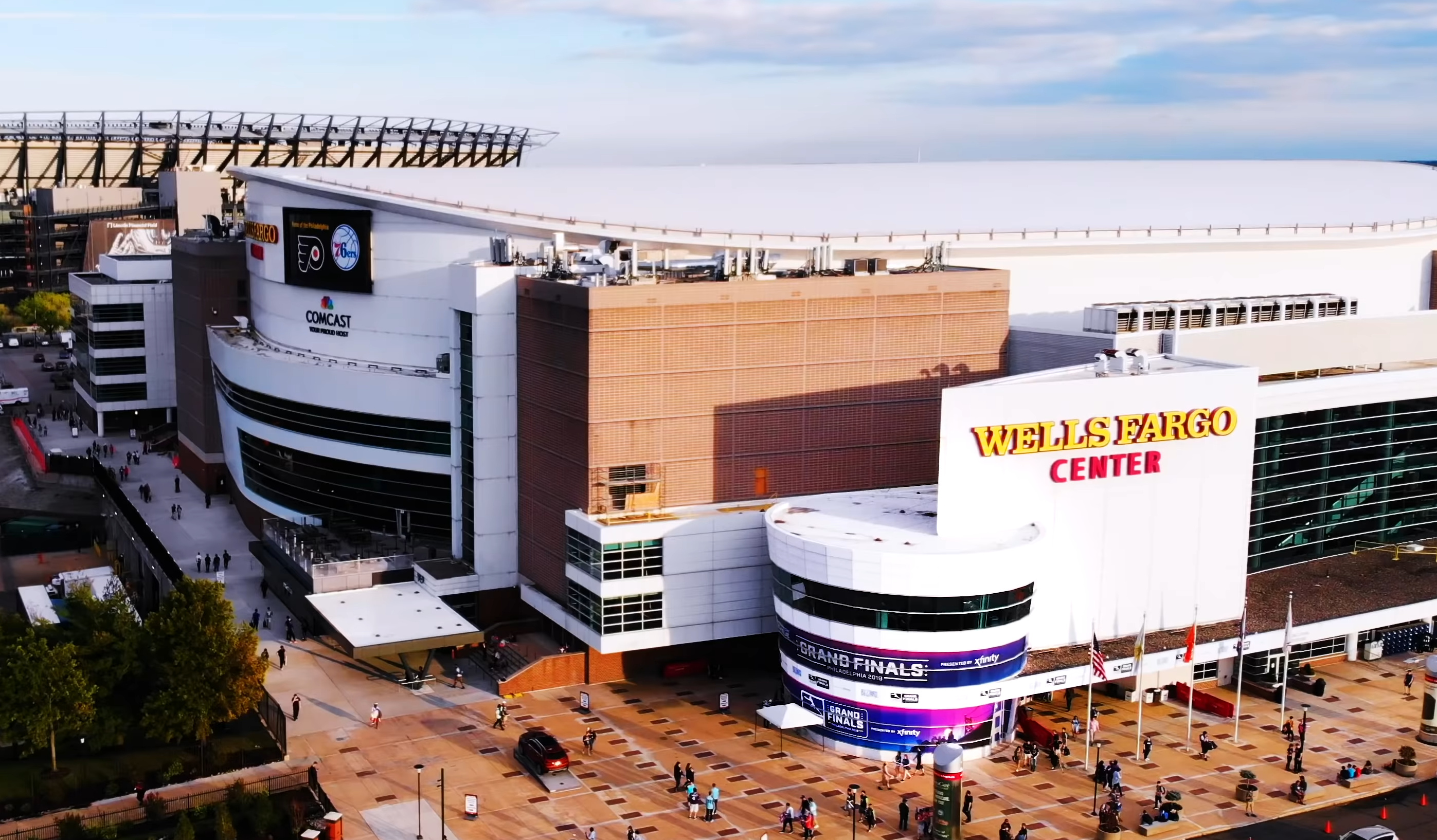 Outside Wells Fargo Center for the 2019 OWL Grand Finals